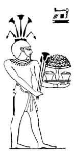 Hapy (called "Hapimou" by Sharpe)